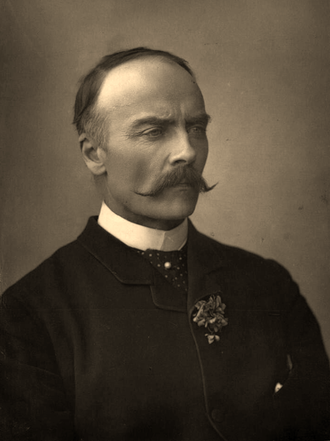 Photograph of Colonel Edward James Saunderson MP. Taken in Baker Street, London.